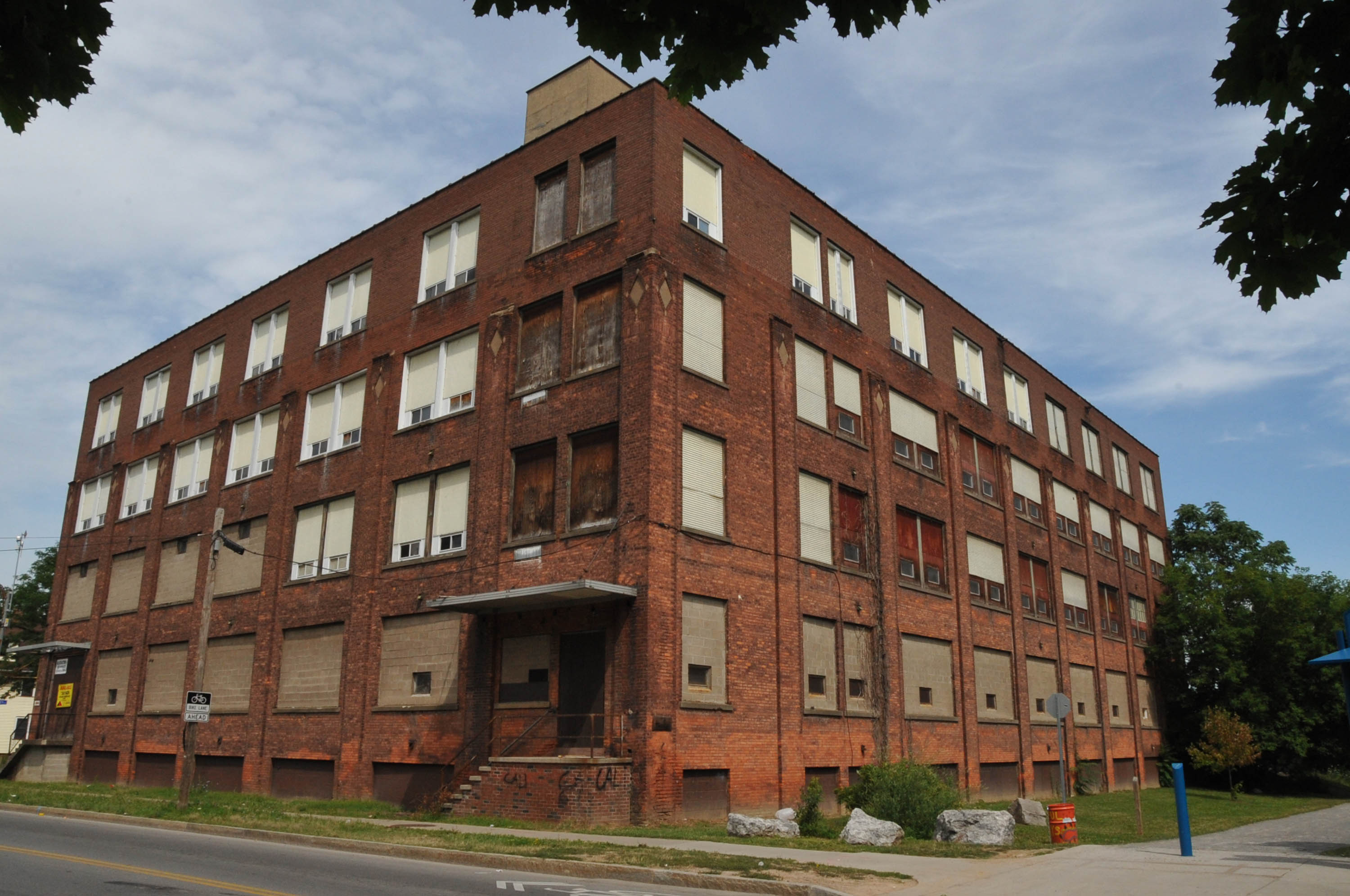 BUILT IN 1914 TO HOUSE ONE OF ROCHESTER’S LONGEST RUNNING FAMILY BUSINESSES DATING FROM THE 1860’S. BUILDING NOW APPEARS VACANT BUT UNDERGOING RENOVATION FOR HOUSING